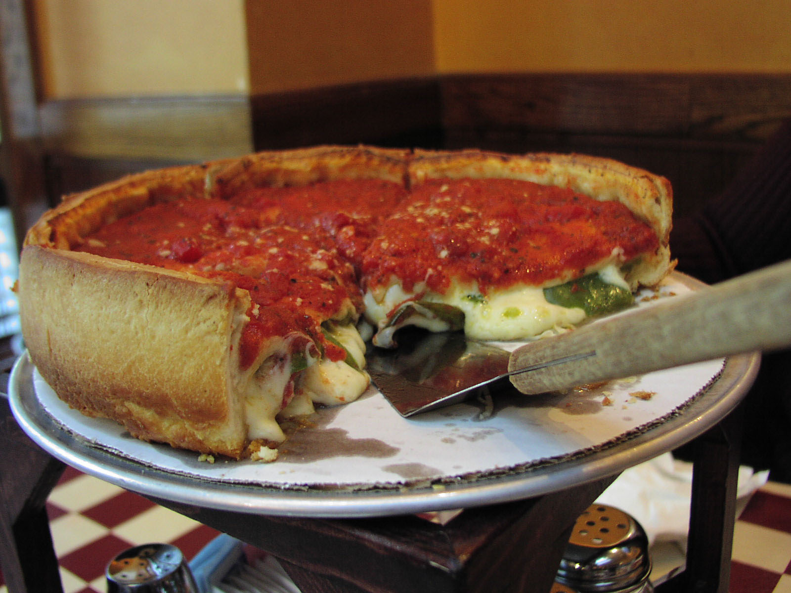 Chicago-style pizza from Giordano's in downtown Chicago.